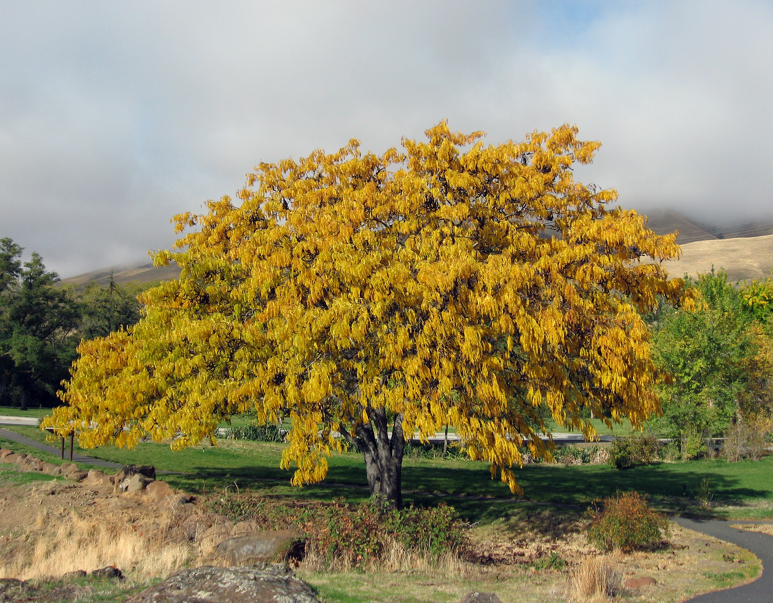 A medium (~12-15 foot tall) honey locust (Gleditsia triacanthos) tree planted on the grounds of the Mary Hill Museum, Washington, USA.